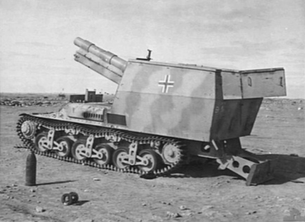 An abandoned German SdKfz 135/1 15 cm self-propelled howitzer in Libya in February 1943.